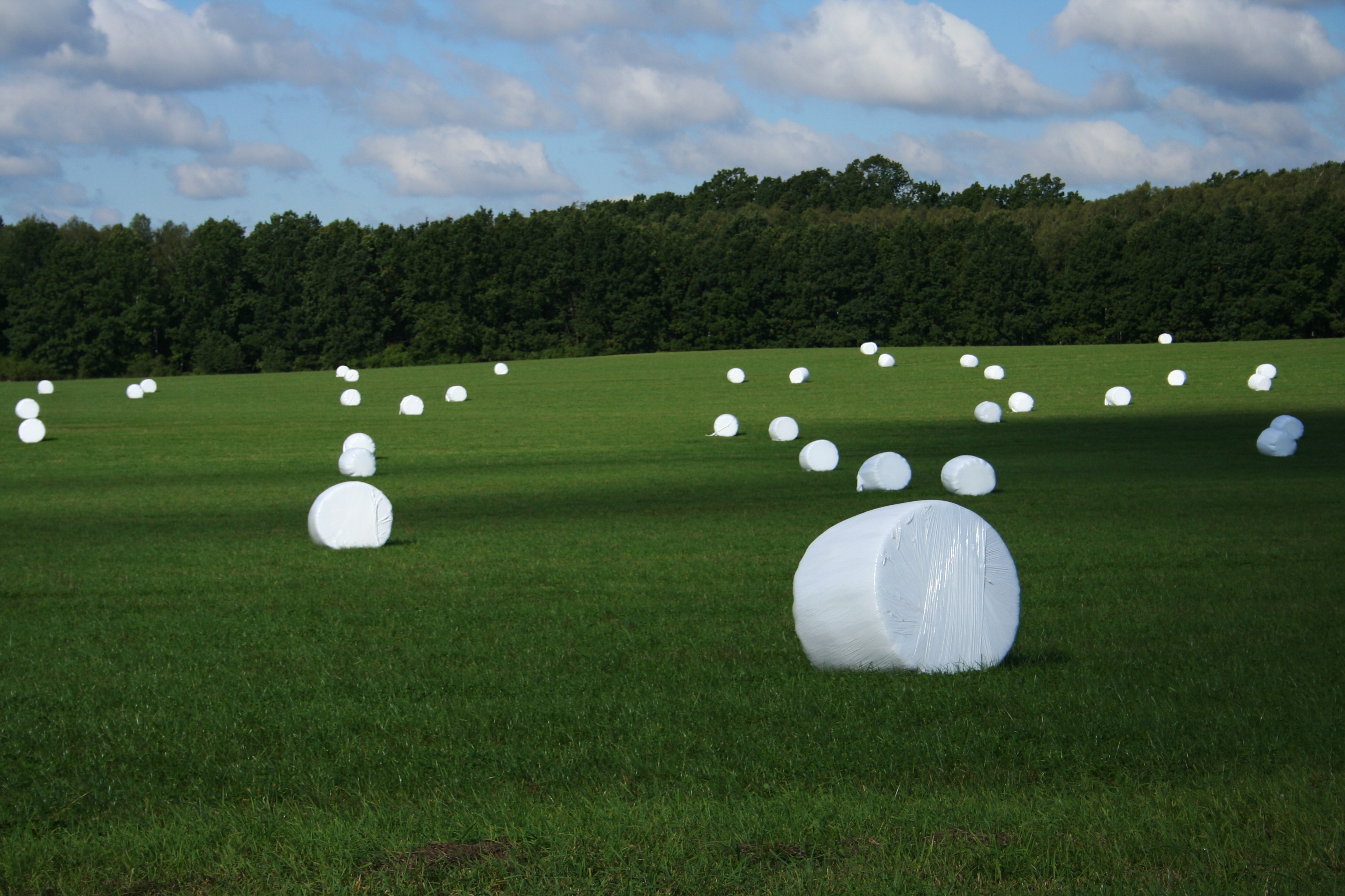 Round hay silage bales in Boronów, Poland